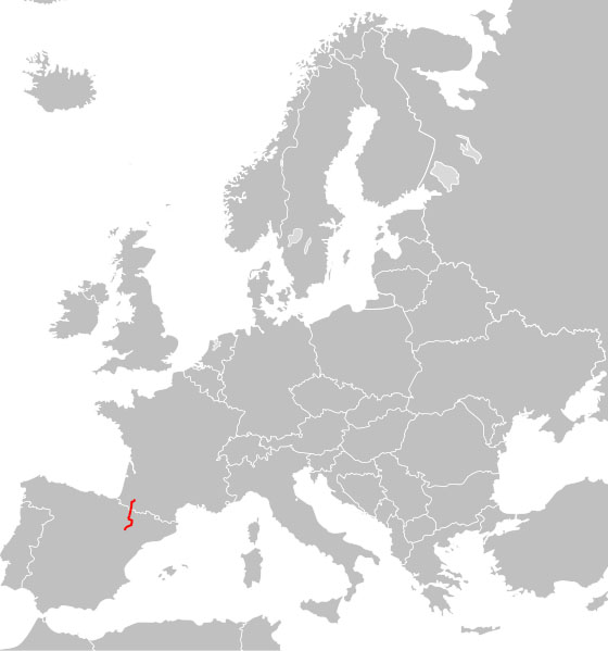 The European route 7